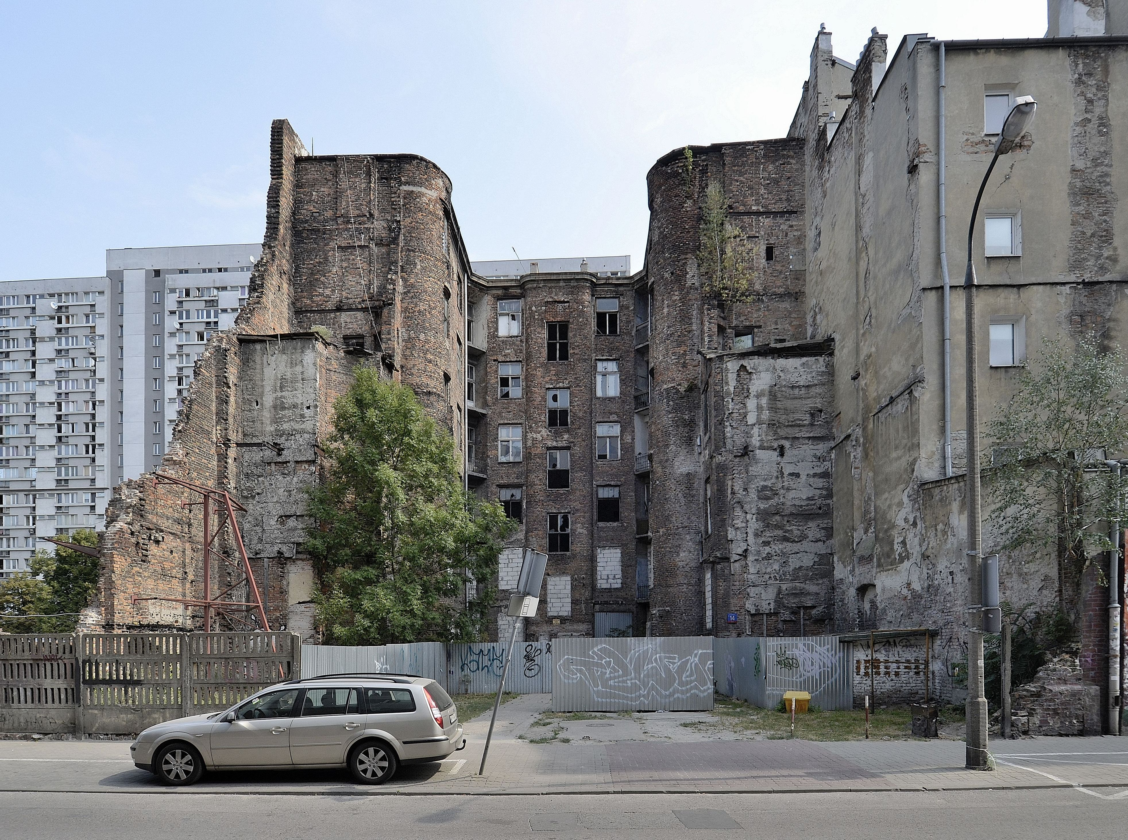 Tenement house at 14 Waliców Street in Warsaw